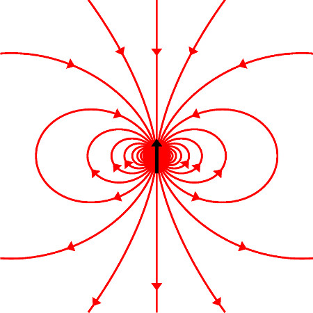 Neutron spin and associated magnetic dipole field lines.